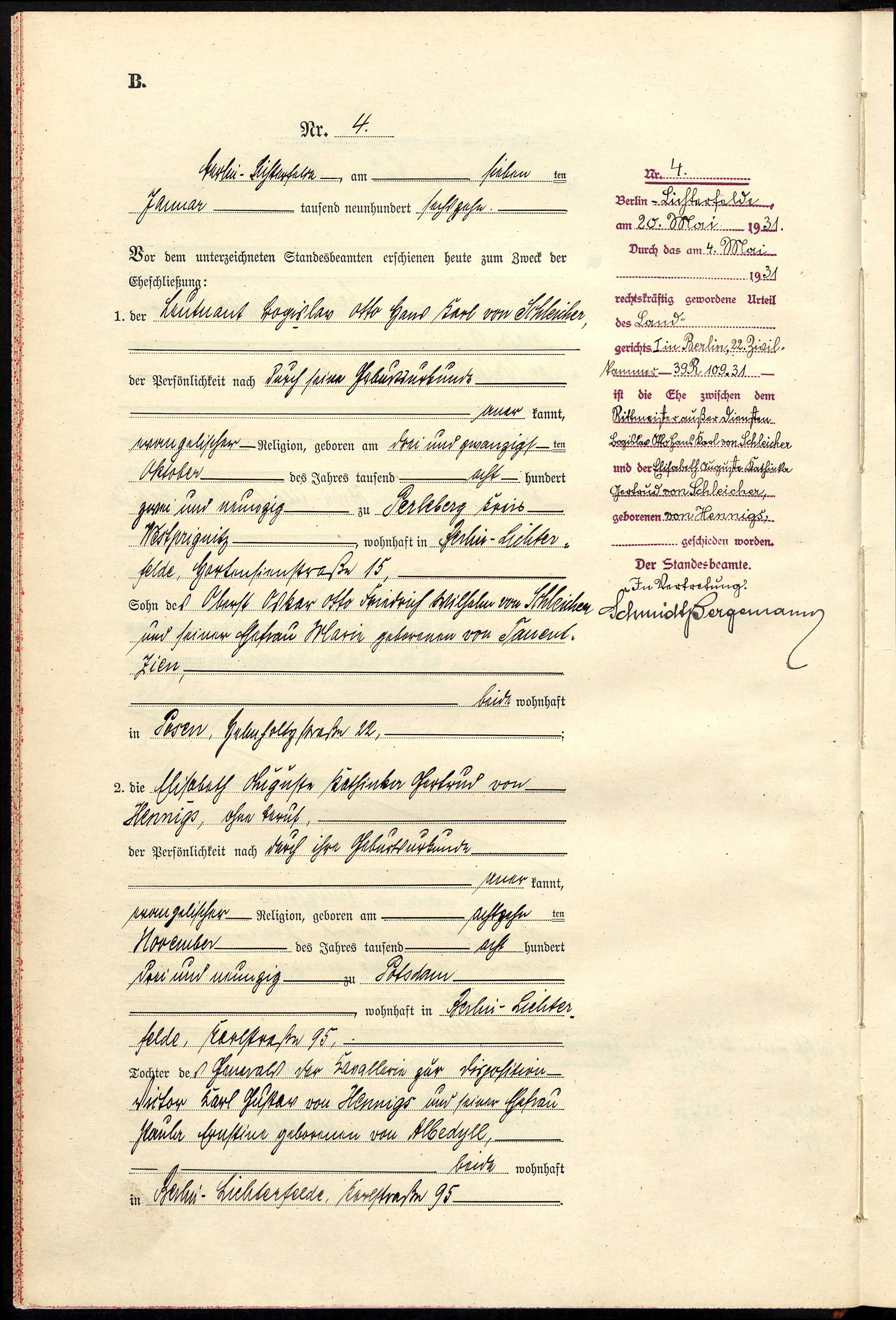 Marriage certificate of Bogislav von Schleicher and Elisabeth von Hennigs from 1916. The marriage was divorced in 1931 and Hennigs married Kurt von Schleicher, a cousin of her first husband, with whom she was assassinated on June 30 1934 by members of the Security Service of the SS.